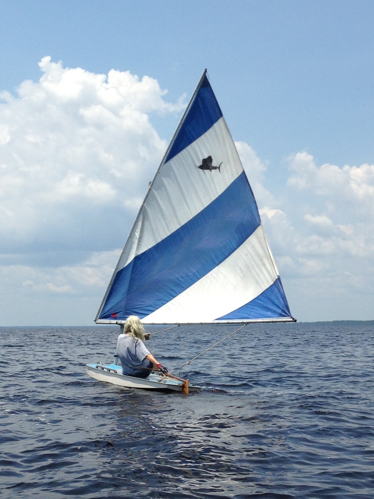 195? Alcort Super Sailfish Sweetness on a run in Pensacloa Bay 2013